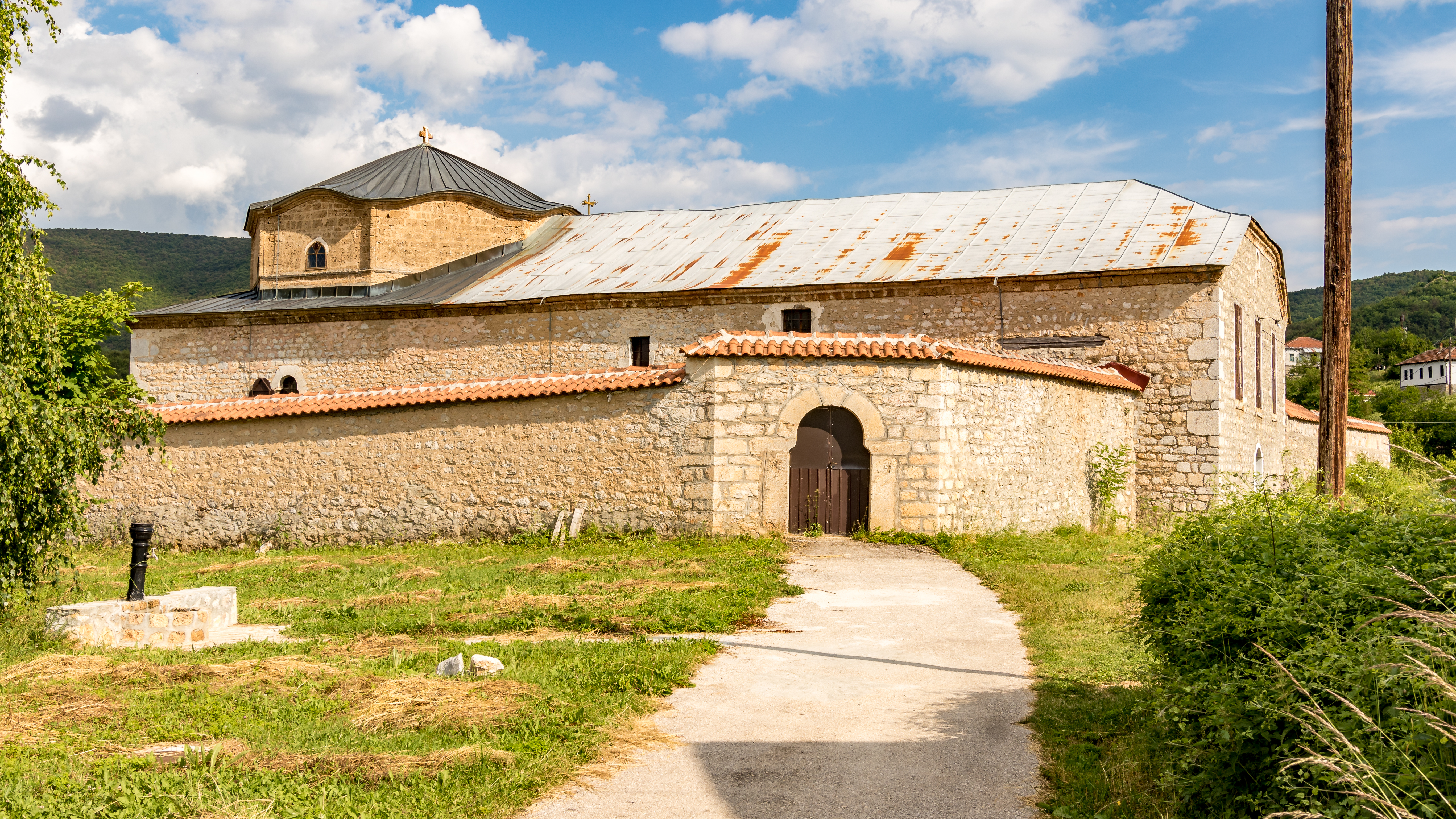 View of the entry of the St. George's Church in the village Lazaropole